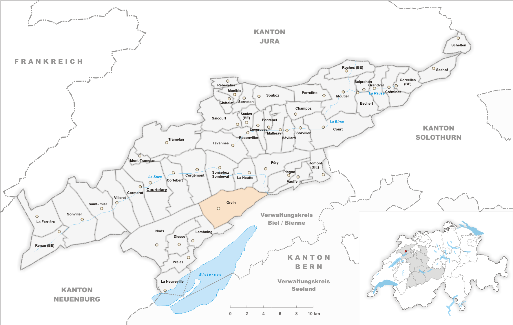 Municipality Orvin